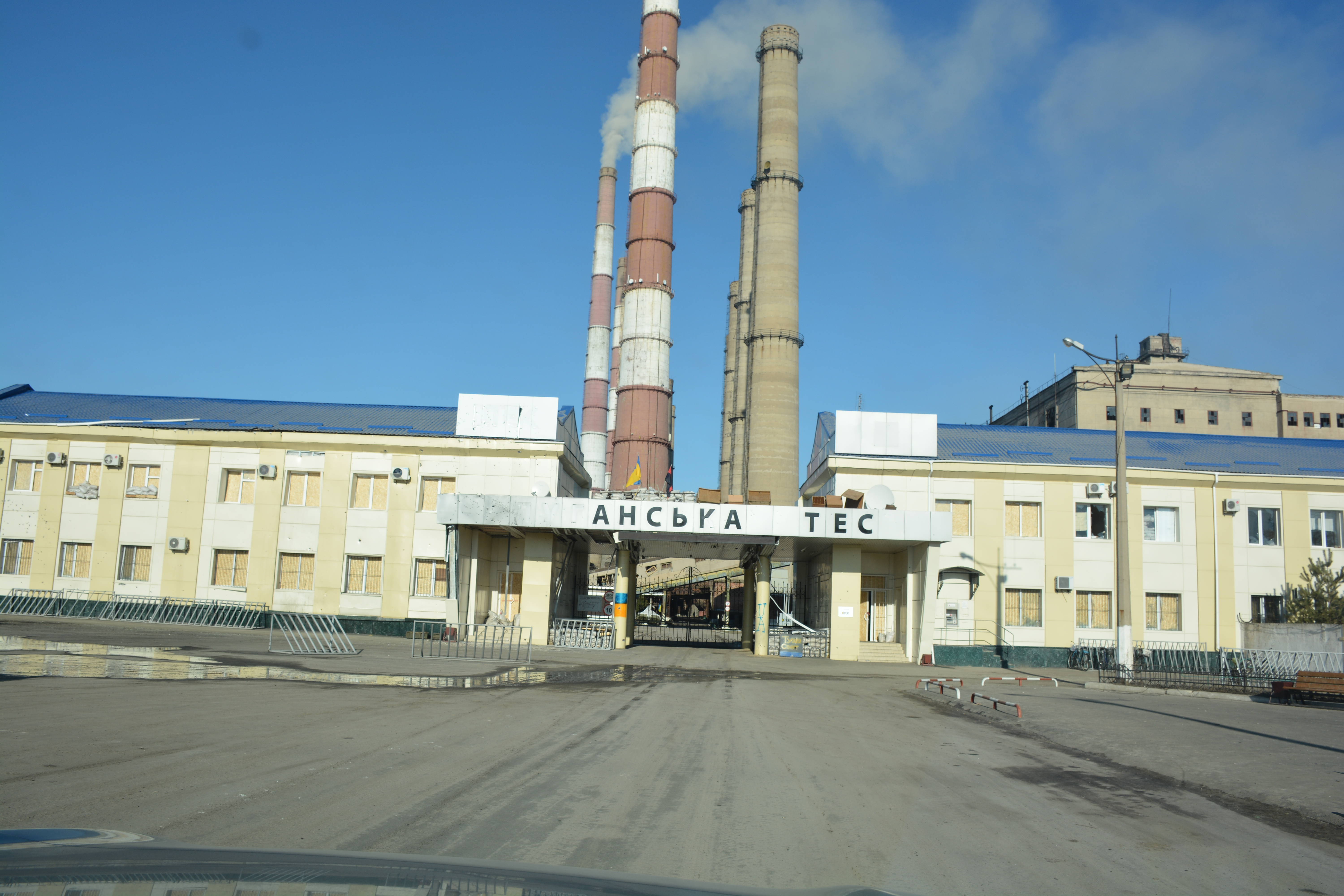 Boarded windows and destroyed lettering at the central entrance of Luhansk power station (Luhanska GRES, Луганська ТЕС), which is a thermal power station north of Shchastia, near Luhansk, Ukraine. During the War in Donbass it was shelled several times. Ukrainian Aidar Battalion garrisoned in Shchastia threatened to blow it up during any attempt to retake it. Foto: Kyryl Savin / Heinrich-Böll-Stiftung